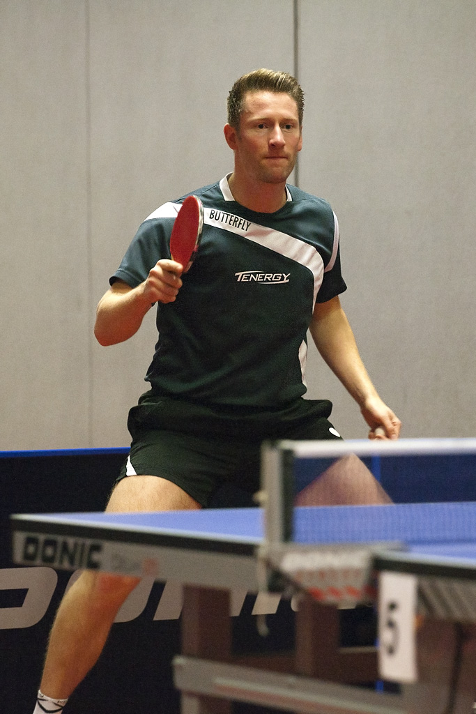 ITTF World Tour 2017 German Open, Magdeburg, Germany, 7 Nov 2017 - 12 Nov 2017, Filus Ruwen